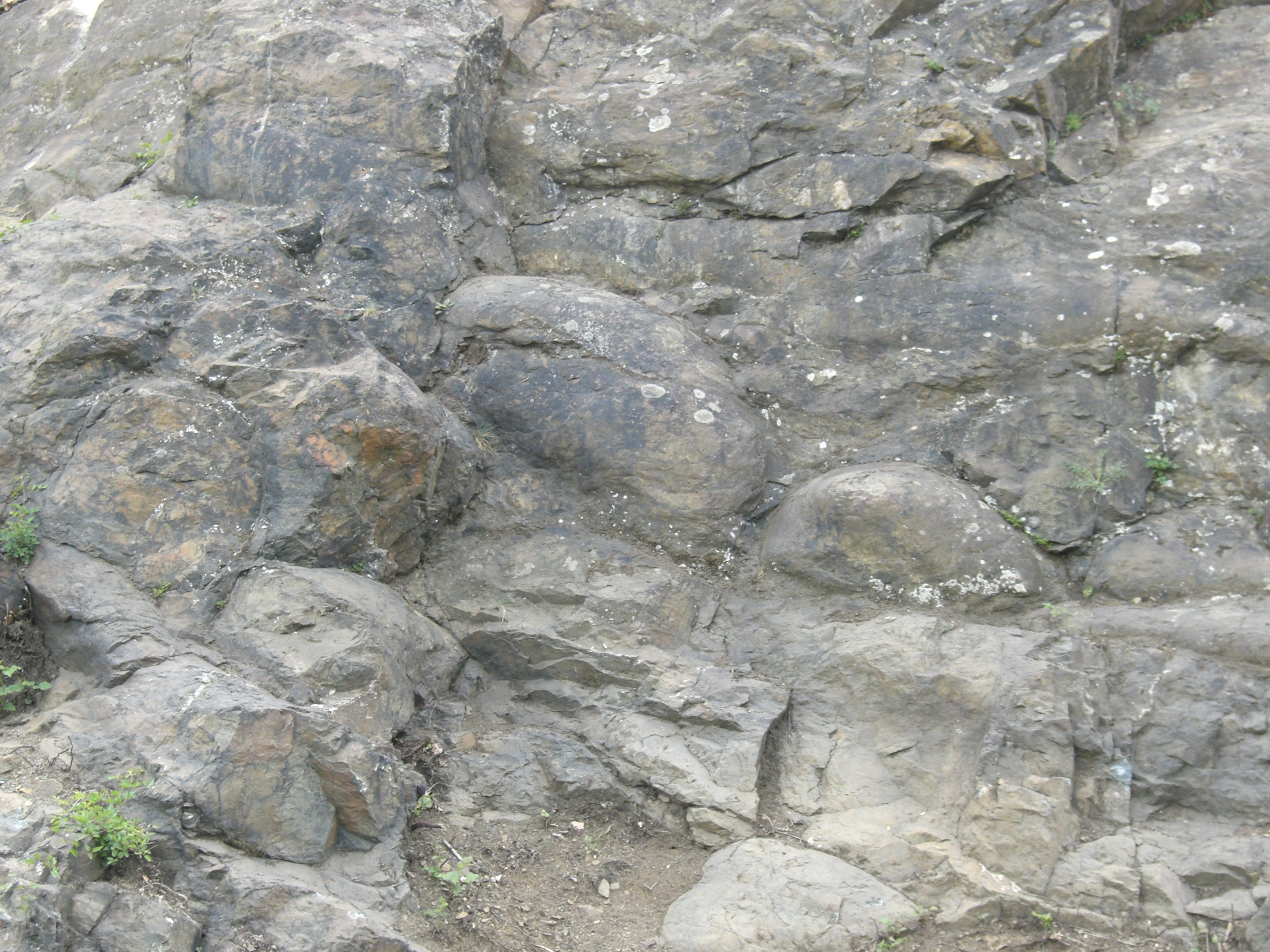 Pillow lava near Zbraslav train station in south-east part of Prague. Lava is about 600M years old. Czech Republic